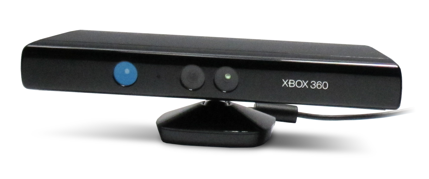 Kinect sensor as shown at the 2010 Electronic Entertainment Expo.